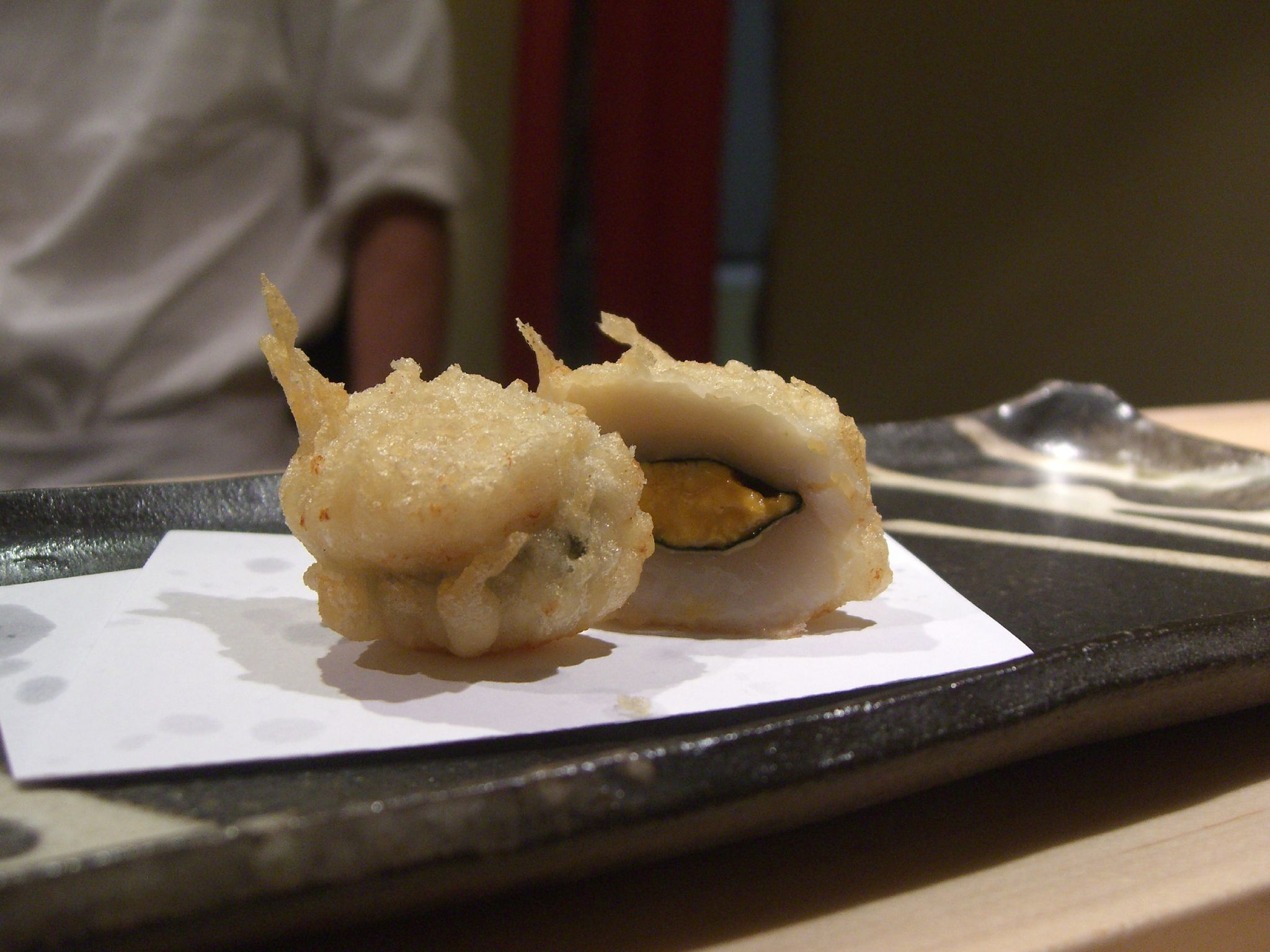 One of the more impressive tempura. The sweetness of the just-cooked scallop is further enhanced by the rich uni sea-urchin roe, which was just warm. The chef noted that one of the diners did not like raw fish and obliged by giving her serve an extra minute in the fryer. Now that is service!